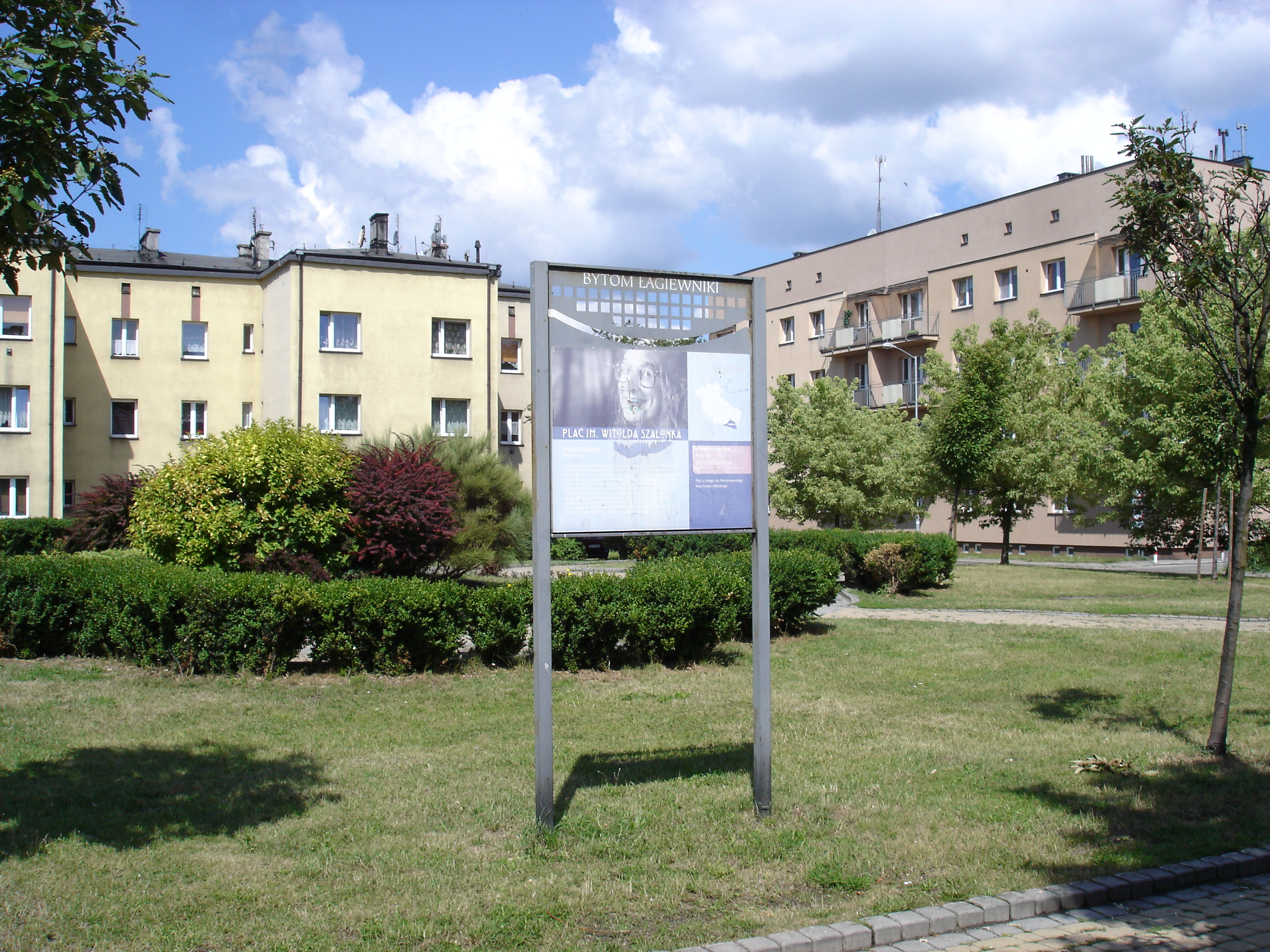 Witolda Szalonka Square in Bytom-Łagiewniki, where composer was buried.